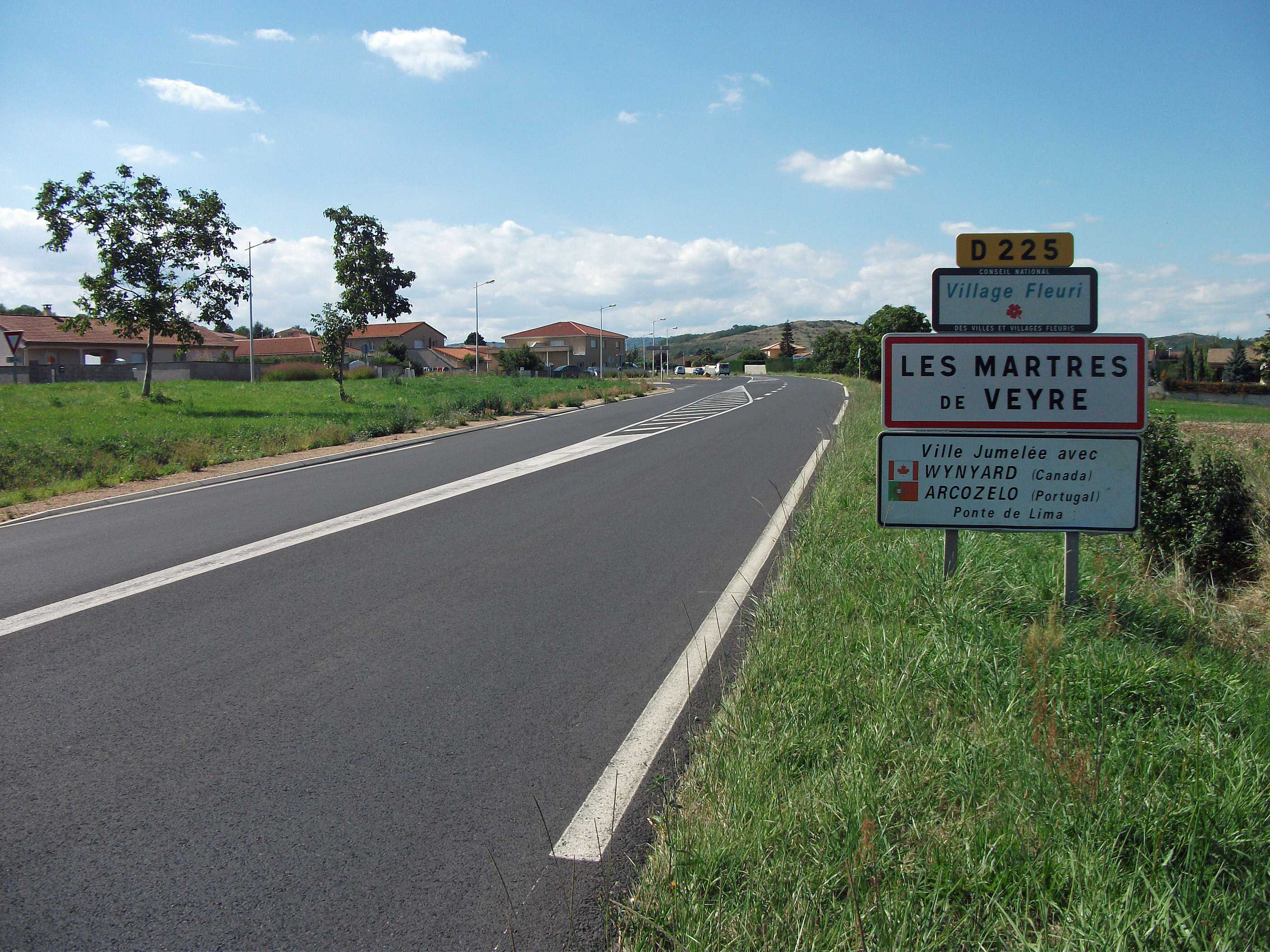 Entrance of Les Martres-de-Veyre by departmental road 225, in the direction of Clermont-Ferrand [8763]